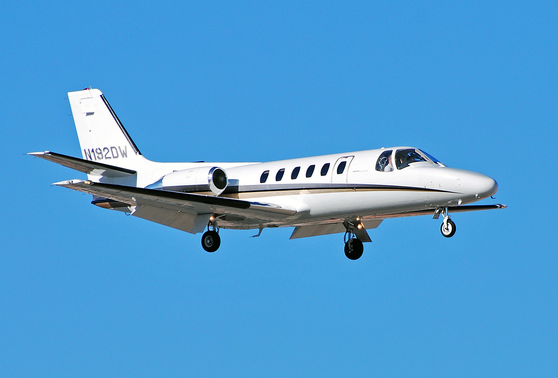 North Las Vegas Airport (IATA: VGT, ICAO: KVGT, FAA LID: VGT) Photo: Tomas Del Coro February 14, 2011